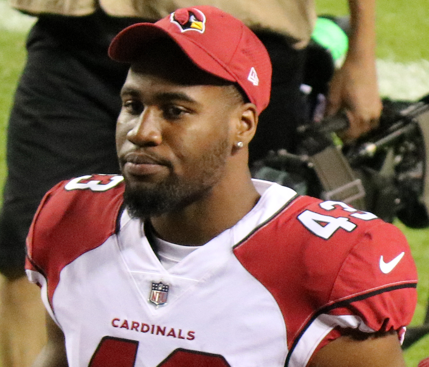 Haason Reddick, a player on the National Football League.